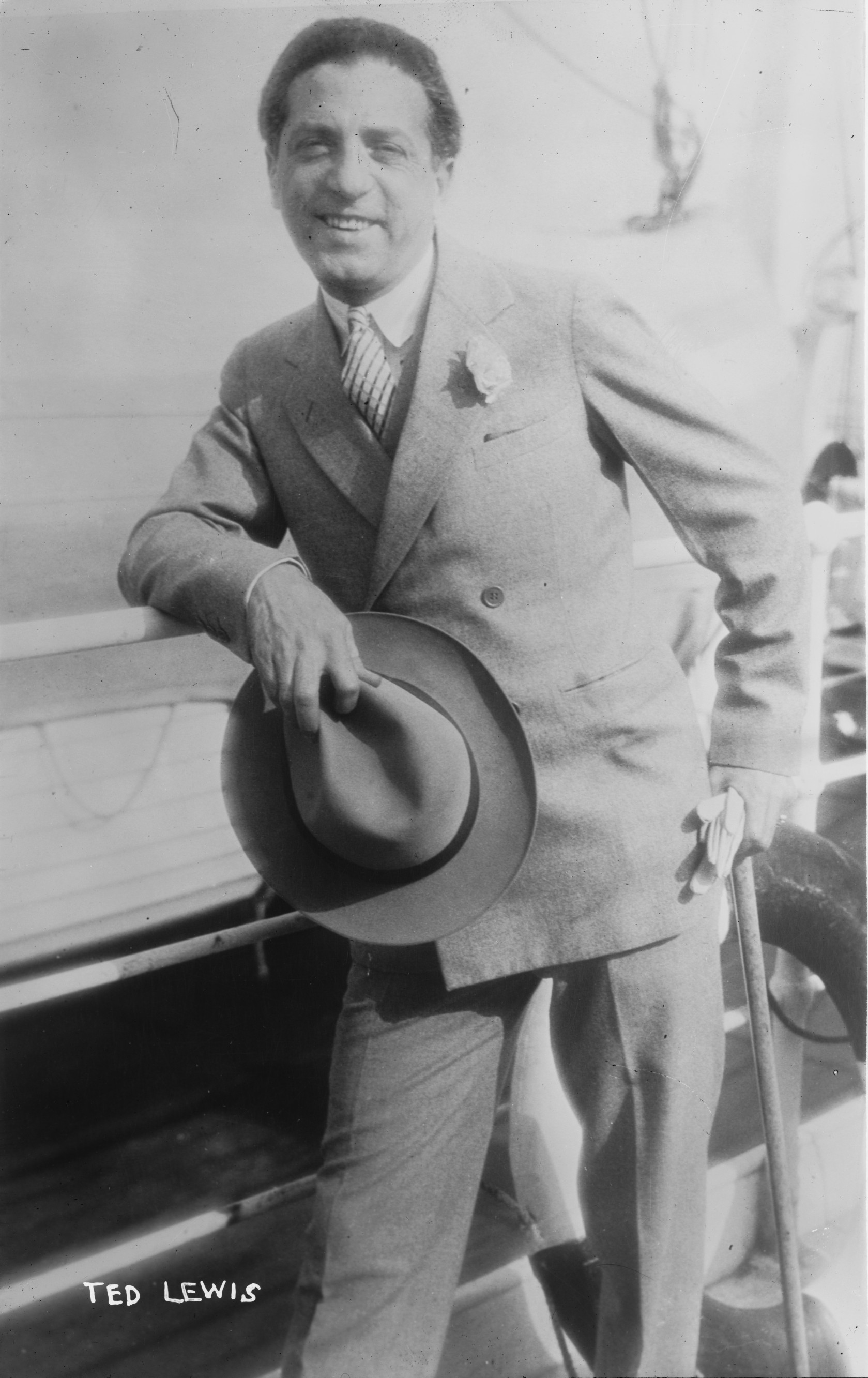 Ted Lewis